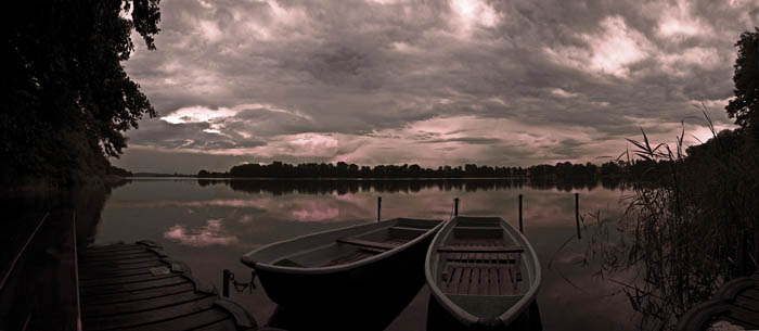 Seddiner See Panorama